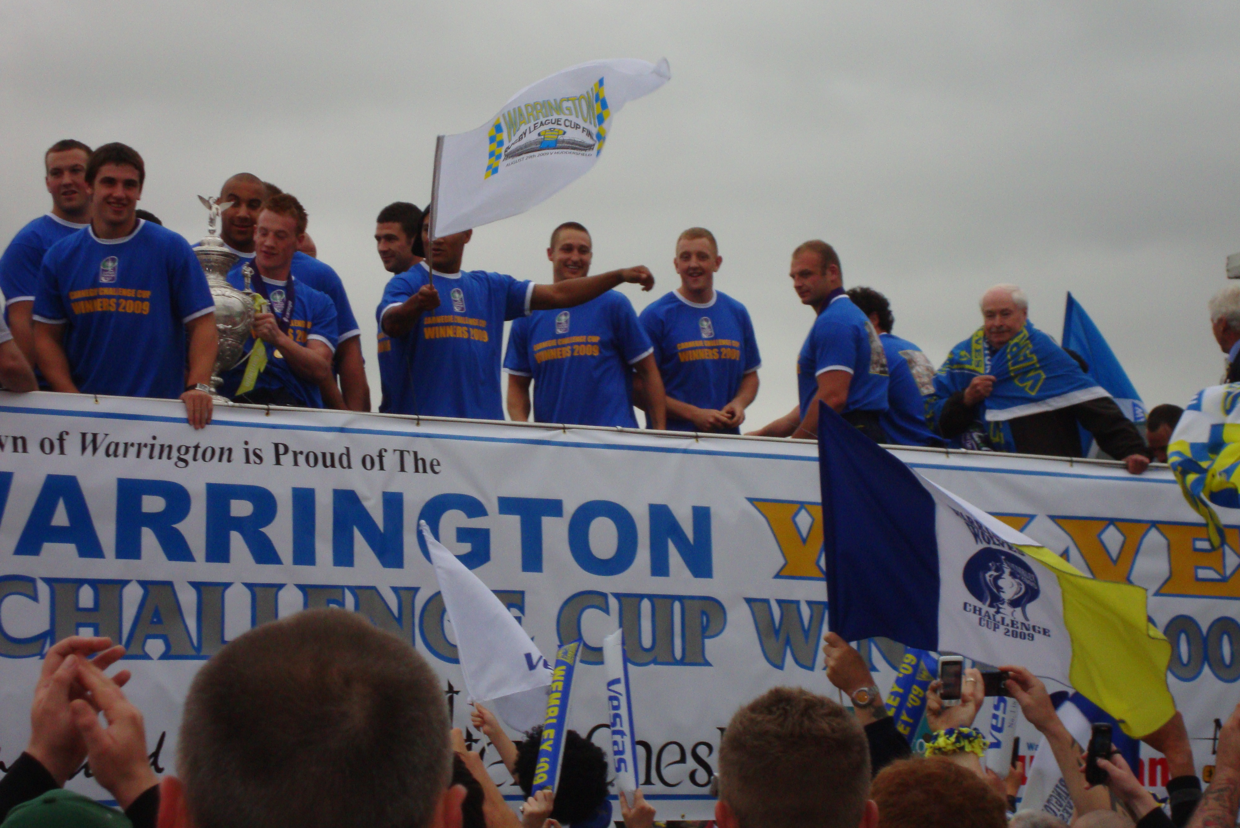 Warrington Wolves - Challenge Cup Winners 2009 50,000 fans come to see the Warrington Wolves bring home the Challenge Cup